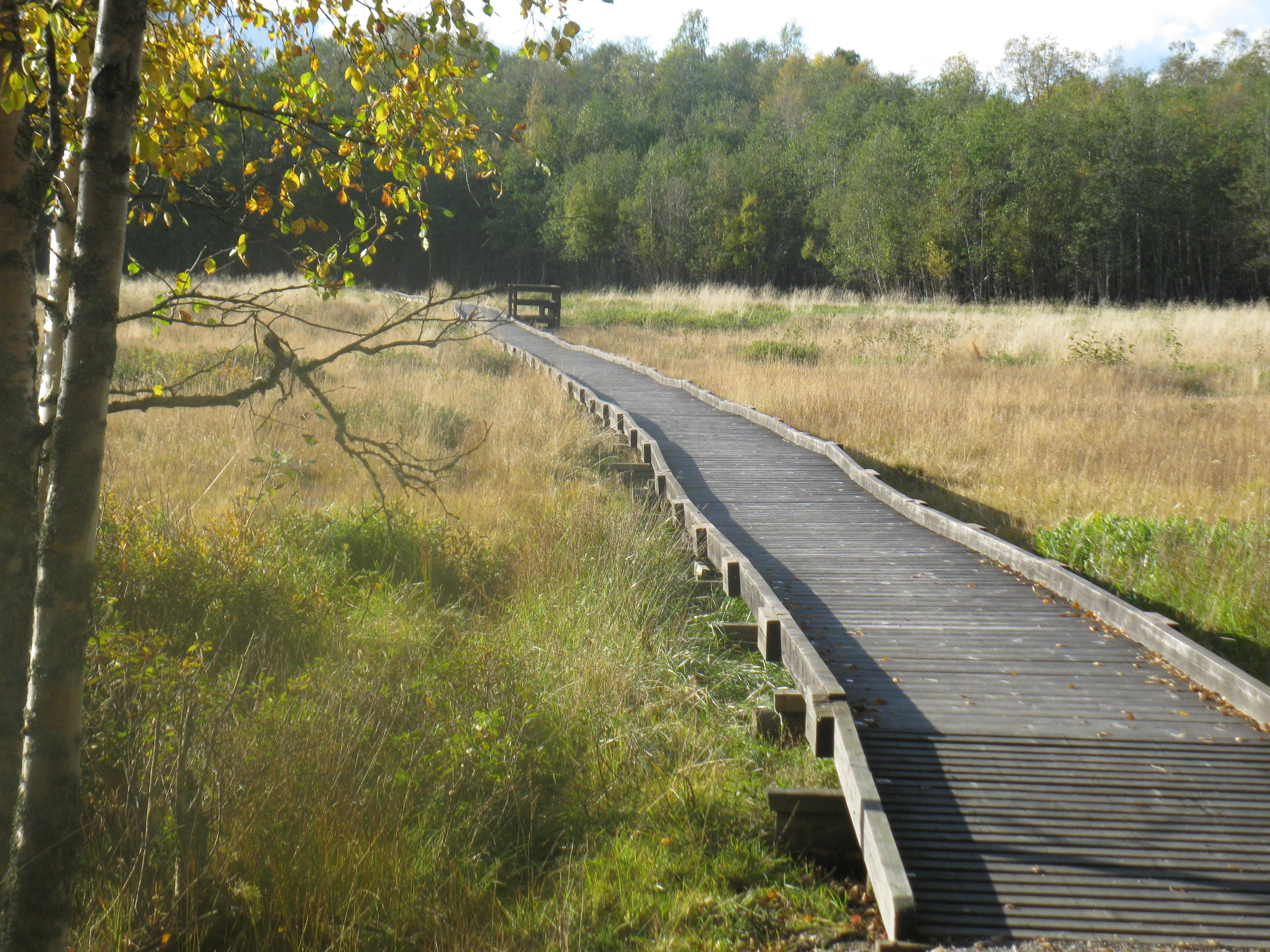 Nature reserve Störnaset Alnö, Sweden